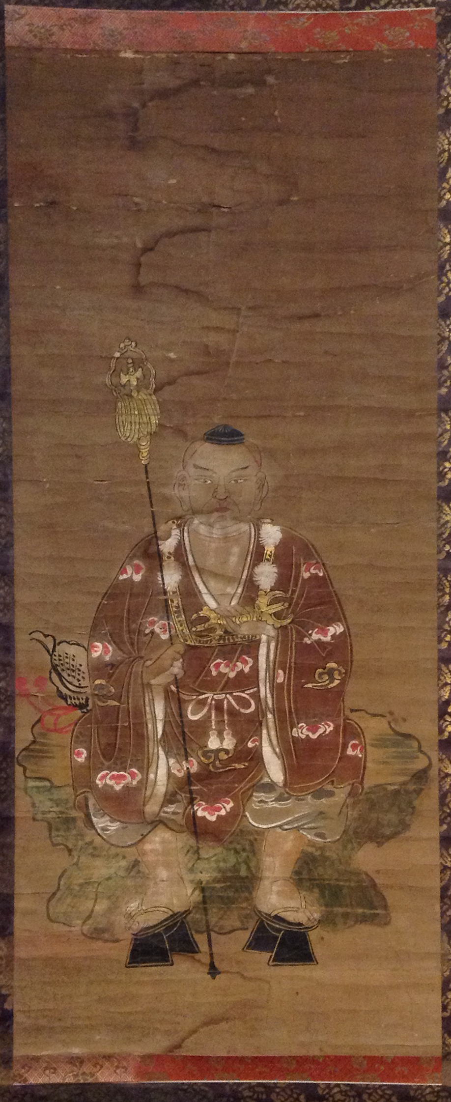 The Shingon monk Shōbō with ritual cap (Tokin), Khakkhara (Kongōjō), stole (Bonten-kesa) und cronch trumpet (Horagai). All these items indicate his close relations to Shugendō. Scroll, Edo-Period (private collection)